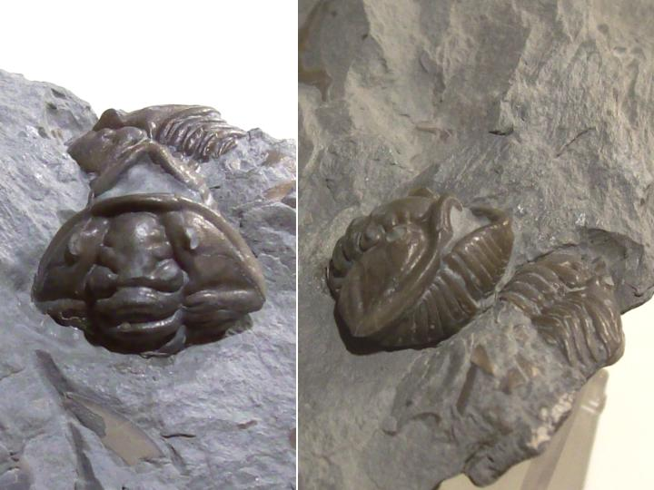 Flexicalymene retrosa (Ordovician, Ohio, USA). Enrolled specimen.